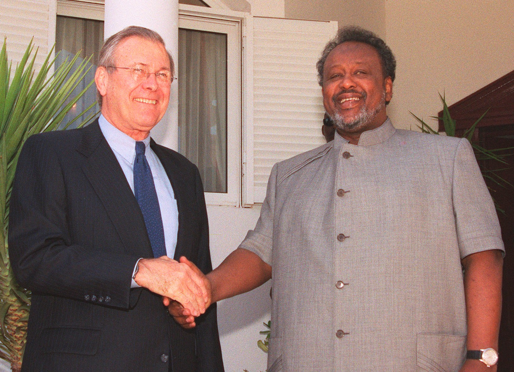 Secretary of Defense Donald H. Rumsfeld meets with Djibouti President Ismail Omar Guelleh (right) at the Presidential residence in Djibouti on Dec. 11, 2002. Rumsfeld is visiting Djibouti and other countries at the Horn of Africa, to meet with local leaders and U.S. personnel deployed there.